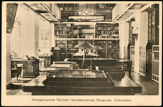 Saint Petersburg (Russia), Russian Geographical Society. Library, photography of 1916 year.